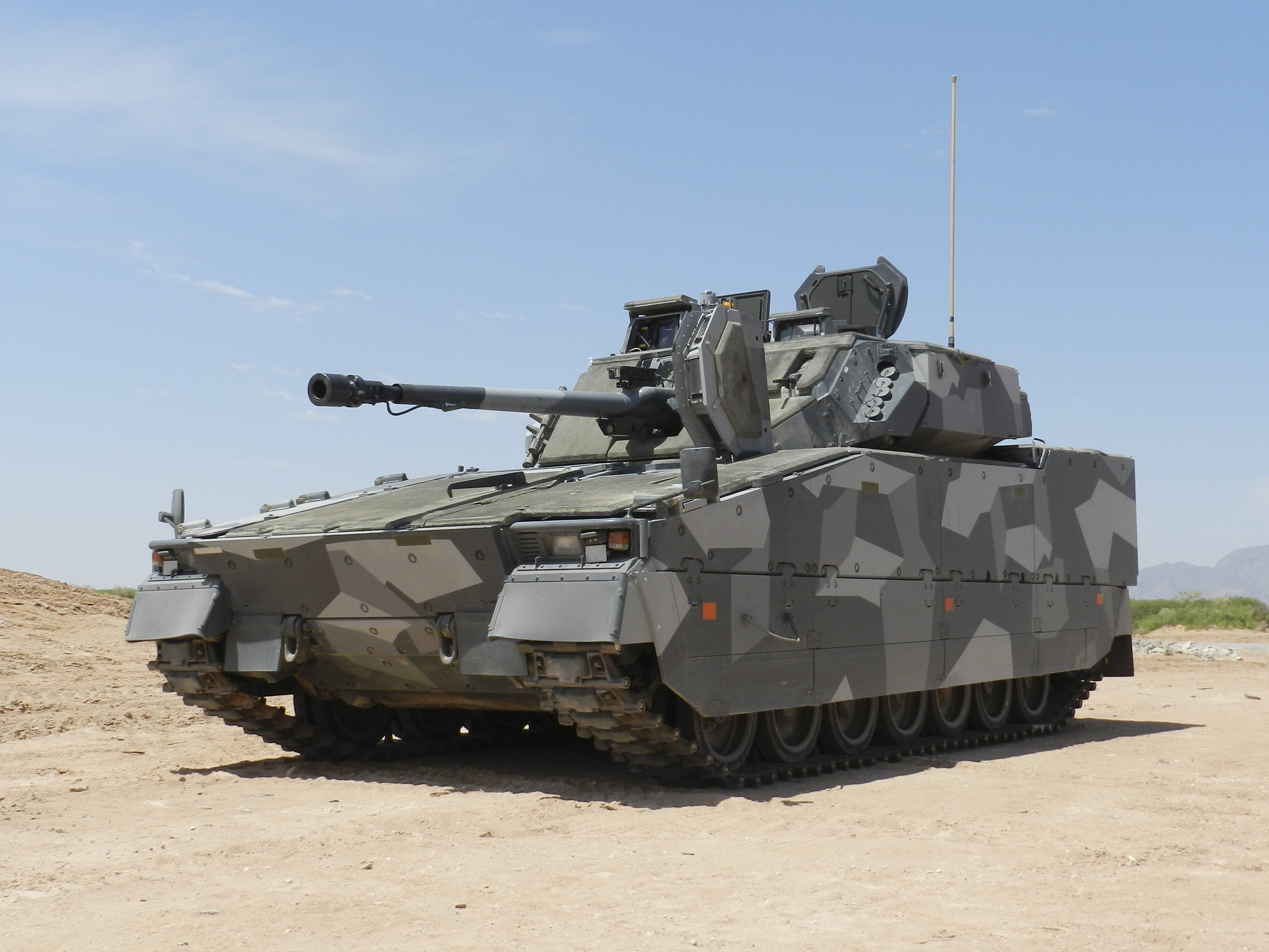 A Swedish CV-9035 that is one of five vehicles being assessed during the Army's Ground Combat Vehicle Non-Developmental Vehicle Assessment effort at Fort Bliss and White Sands Missile Range.